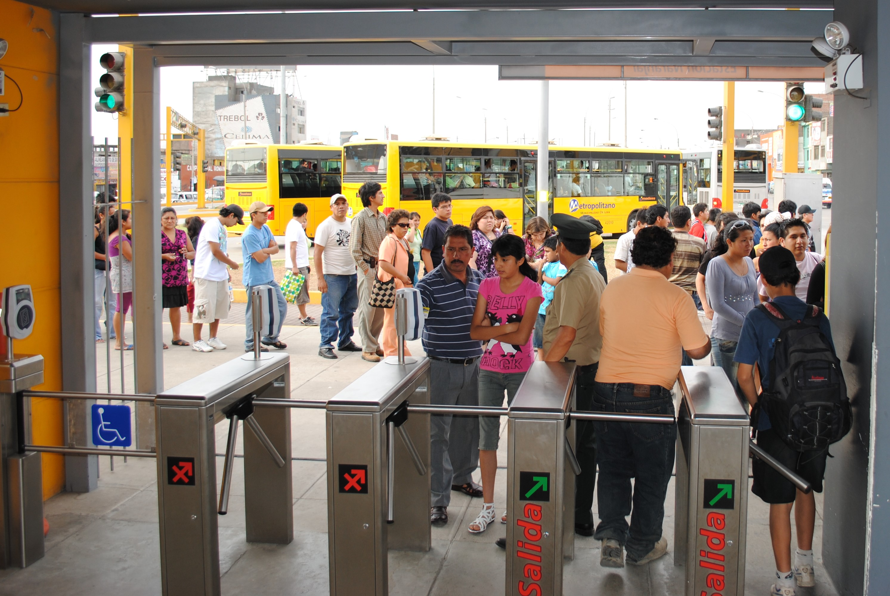 Off-board fare collection through a barrier-controlled method.